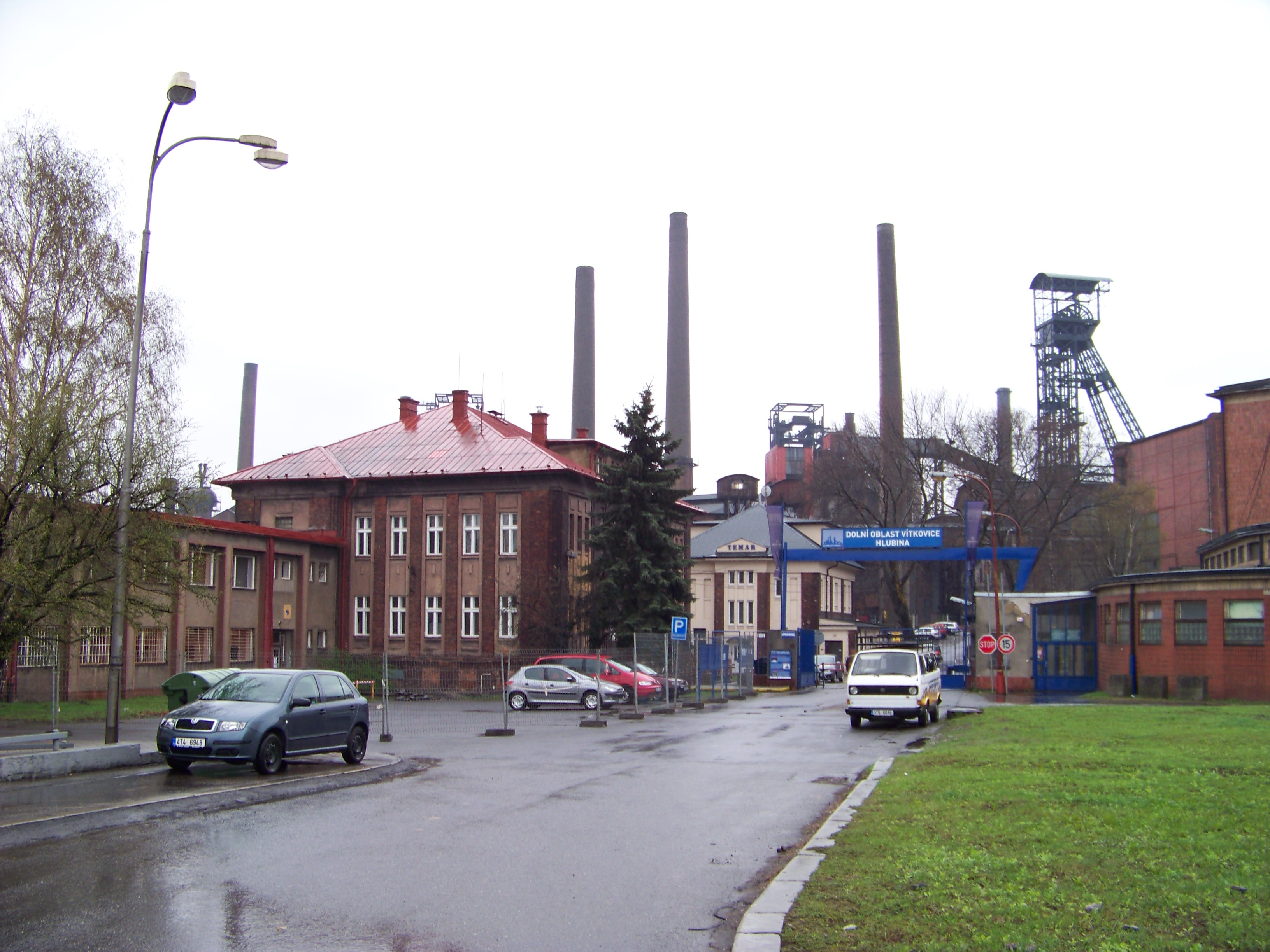 Ostrava-Moravská Ostrava, Moravian-Silesian Region, the Czech Republic. Vítkovická street, Hlubina Mine.